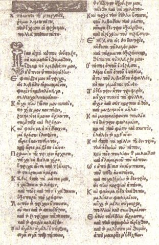 First page of Apokopos, a fifteenth century Greek (Veneto-Cretan) catabasis in the vernacular